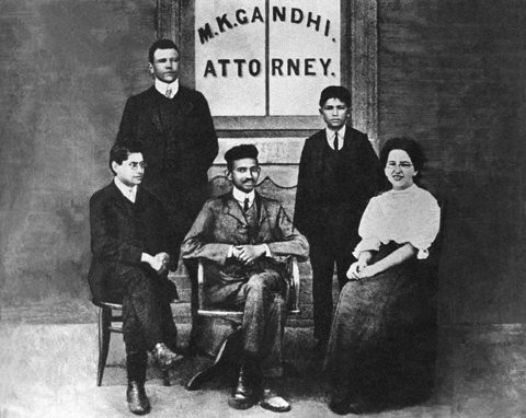 Gandhi (center) with his secretary, Miss Sonia Schlesin, and his colleague Mr. Polak in front of his Law Office, Johannesburg, South Africa, 1905.